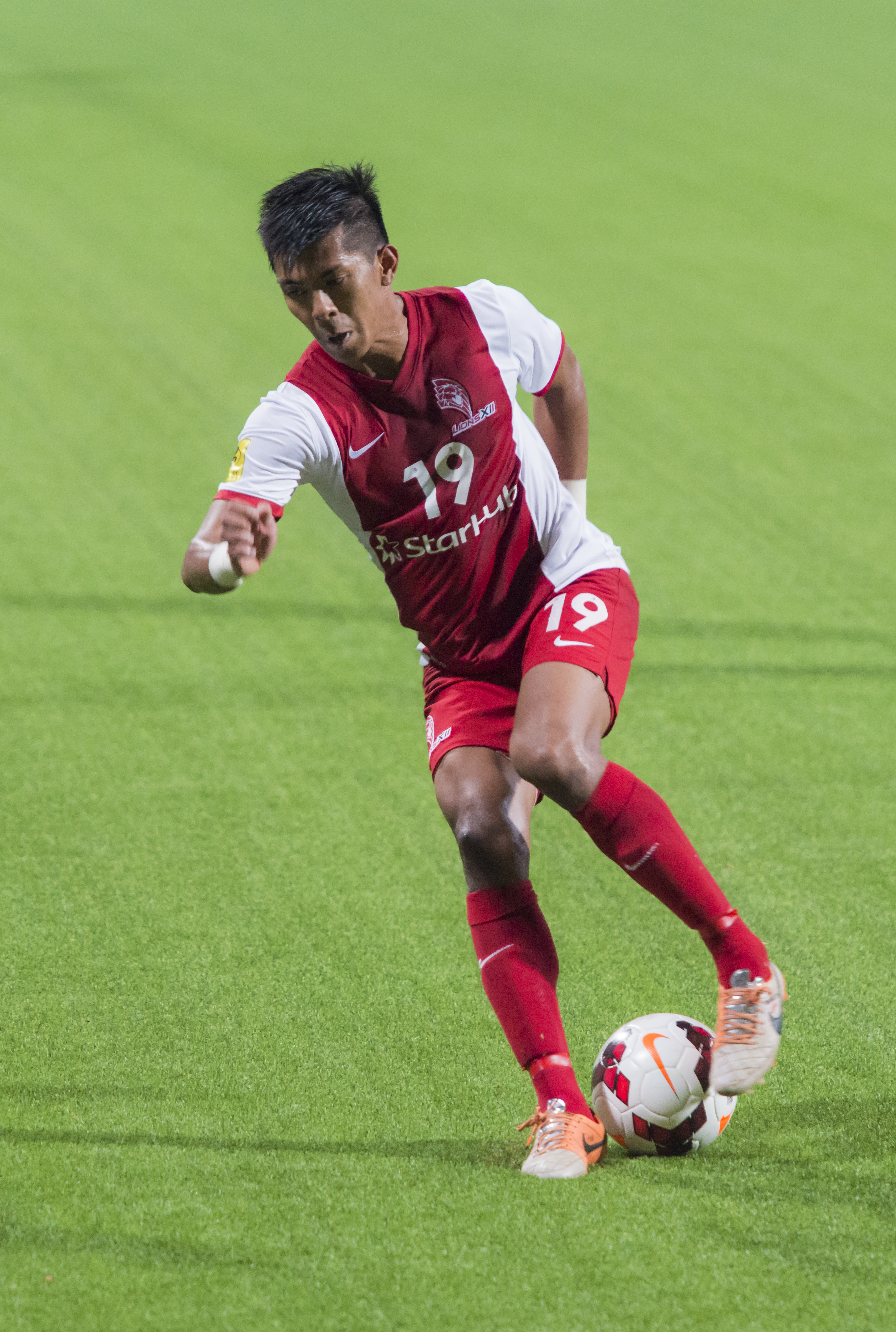 khairul amri 2014 lionsxii msl versus kelantan fa